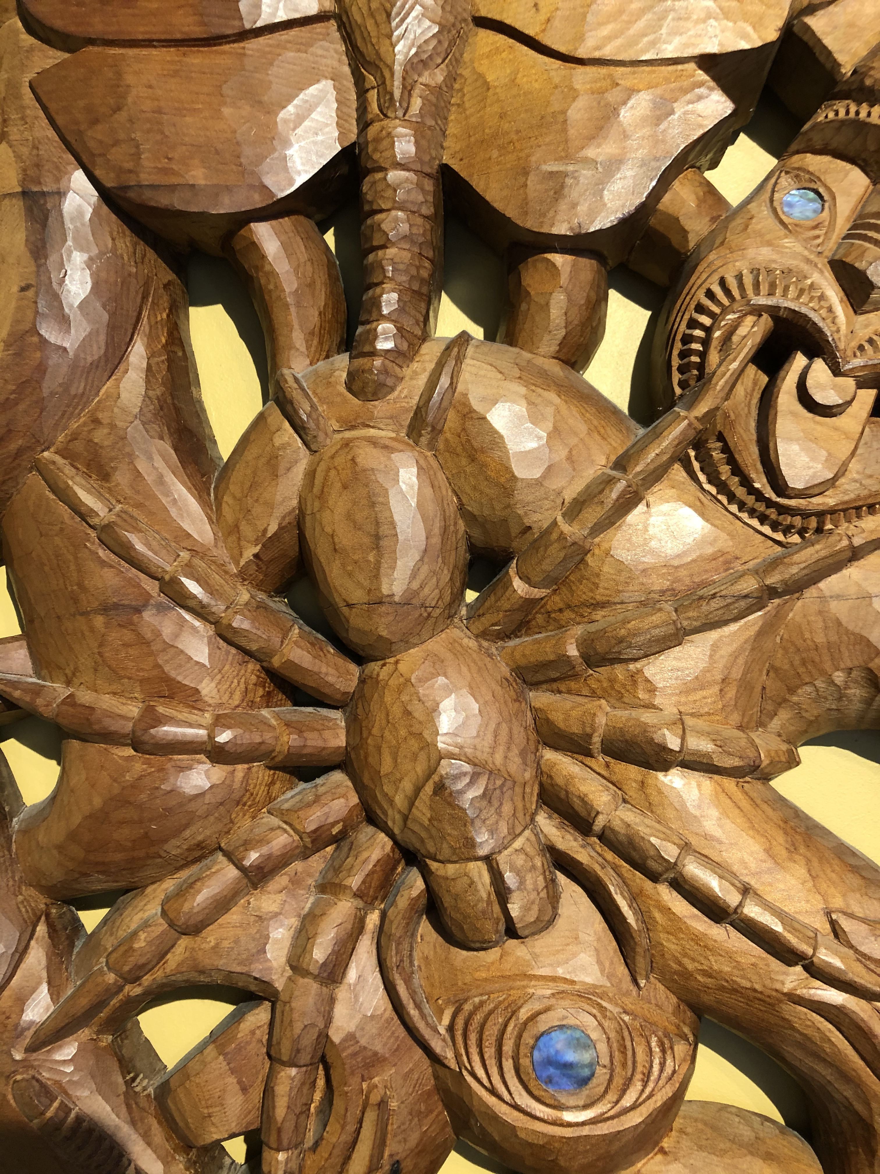 New Zealand Tunnelweb Spider carved by Denis Conway onto a Maori pare, on display at the New Zealand Arthropod Collection at Landcare Research, Auckland.